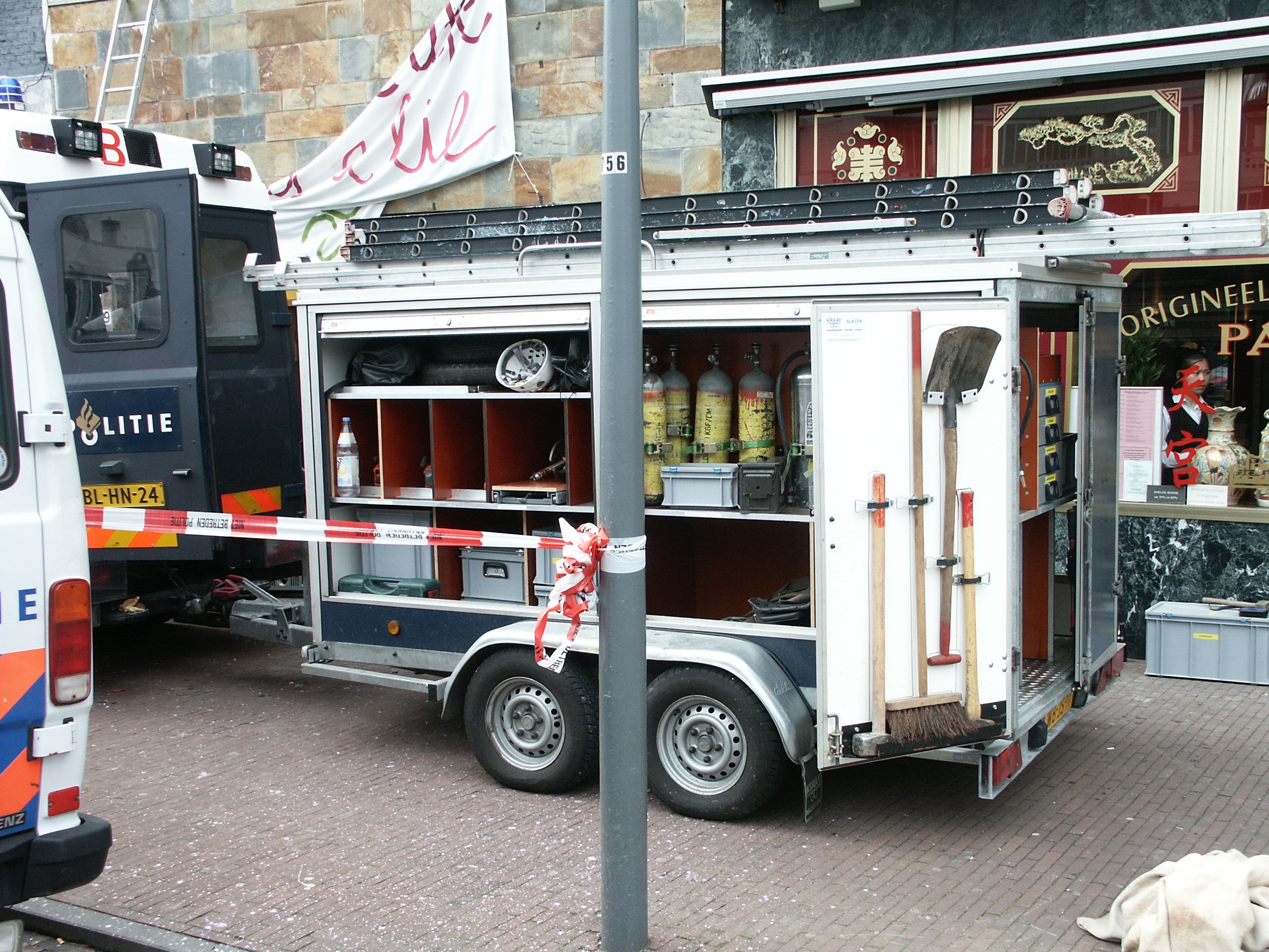 BtraTra trailer